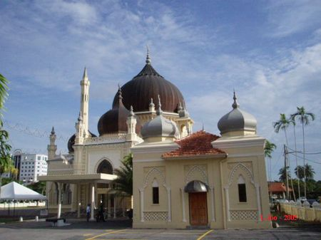 Picture of Masjid Zahir in Alor Setar, Kedah